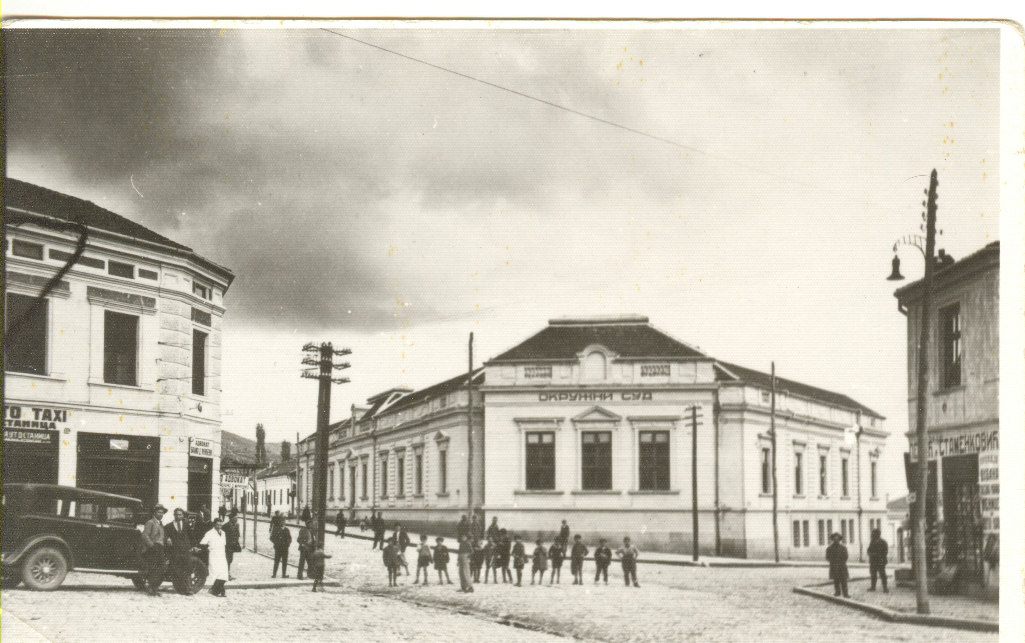 Old postcard of Vranje from beginning of 20th century